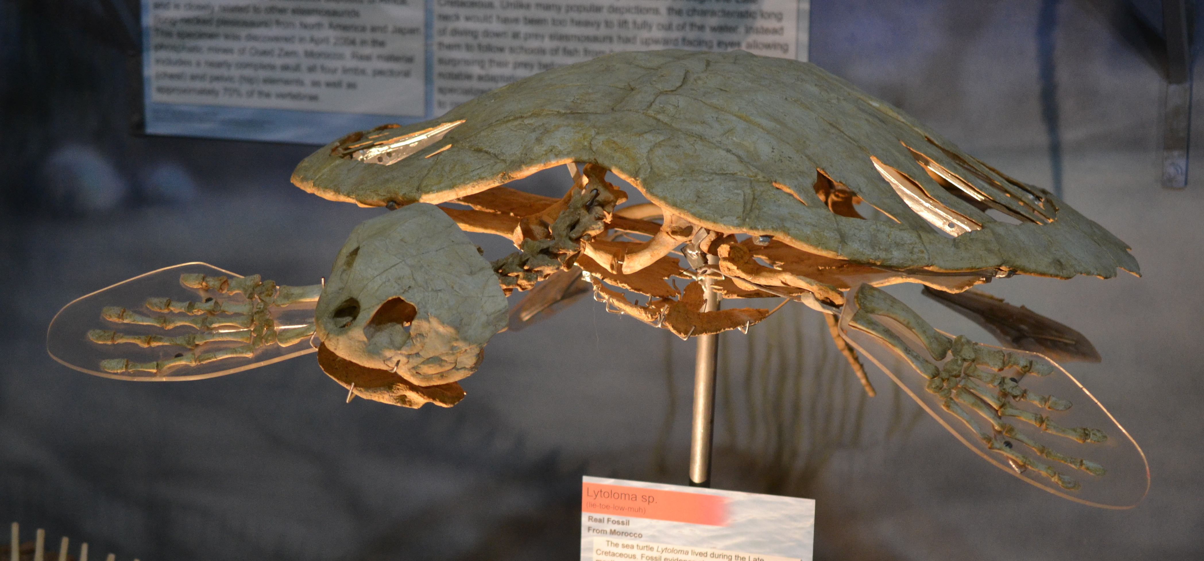 Wyoming Dinosaur Center